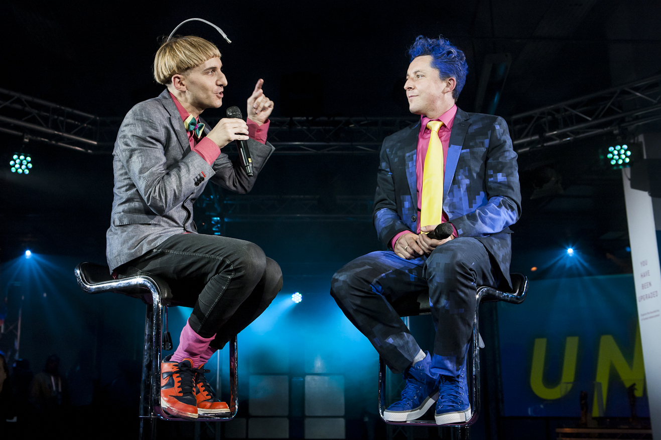 Neil Harbisson giving a talk at London's Science Museum